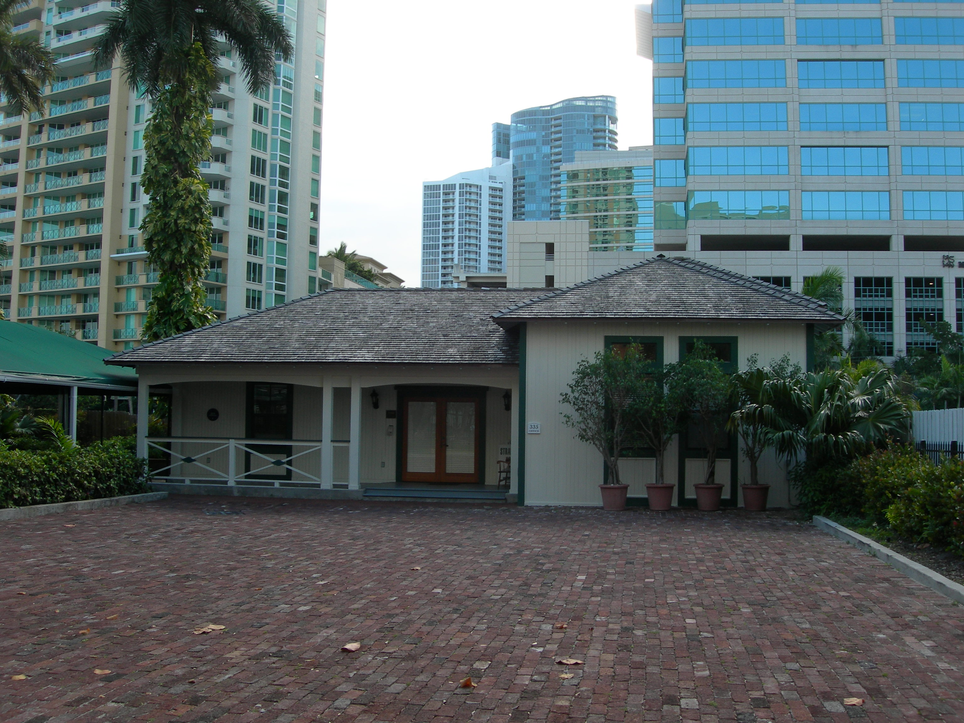 Admin building for Stranahan House, Fort Lauderdale, Florida, USA